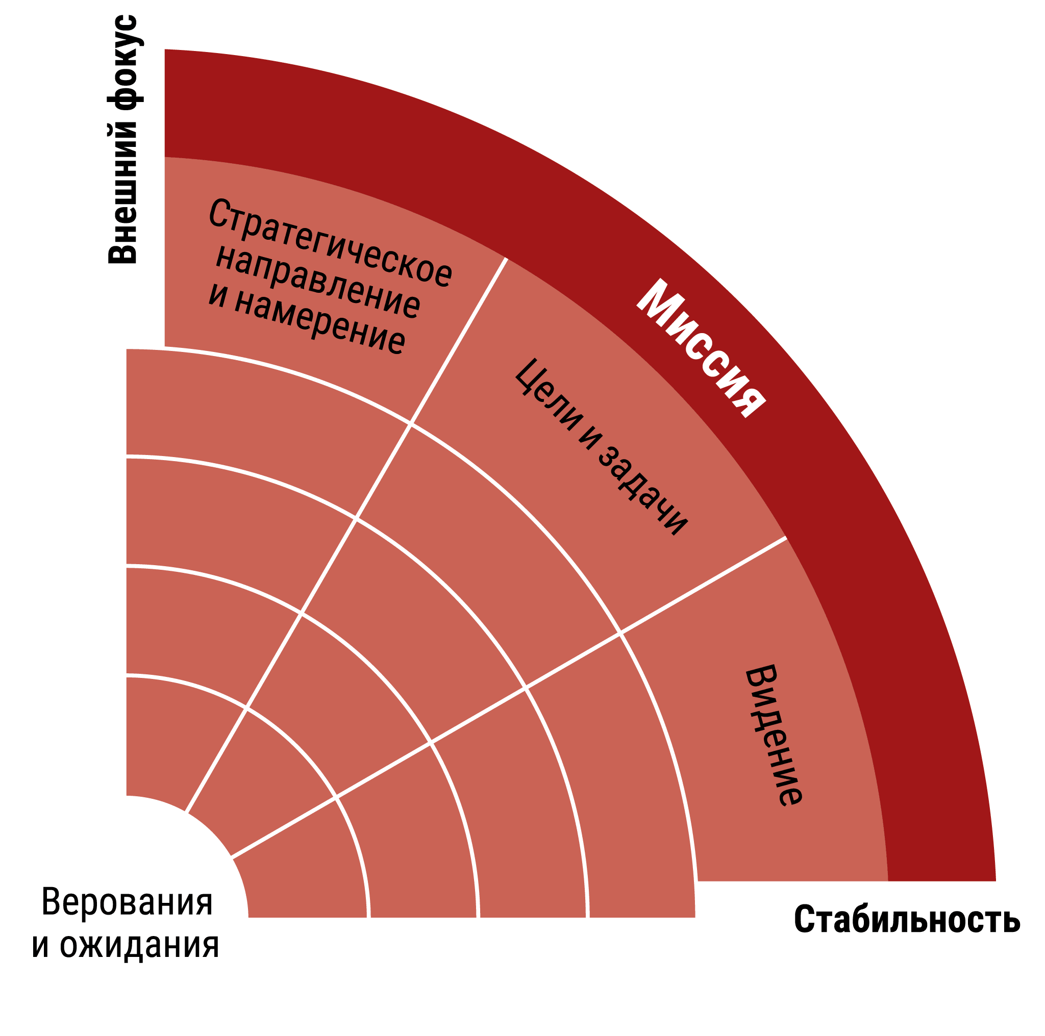 Model Denison - Mission